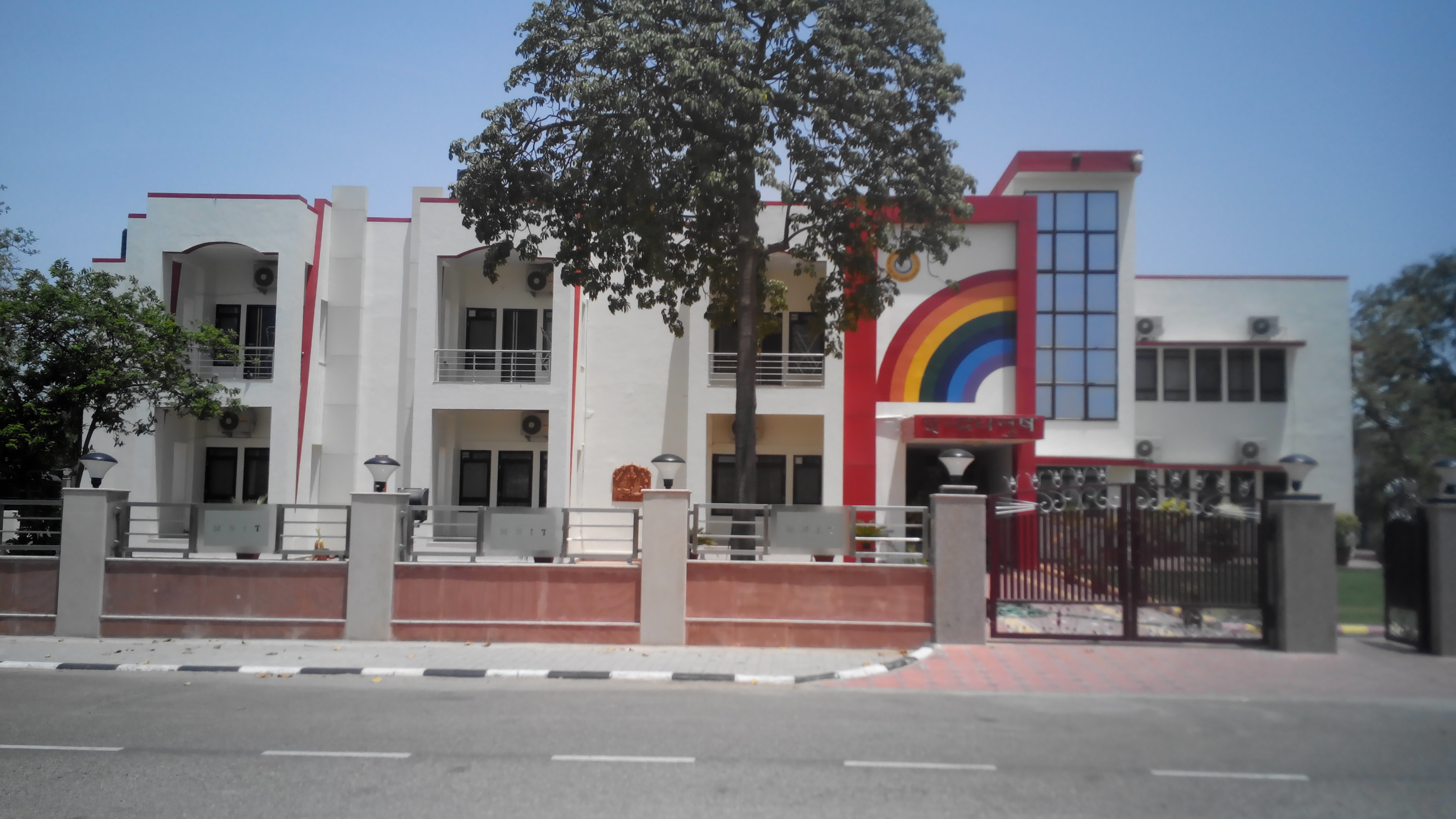 Malaviya National Institute of Technology Campus